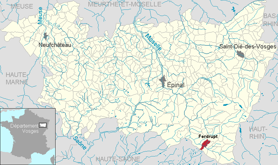 Ferdrupt in the department of Vosges, Lorraine, France